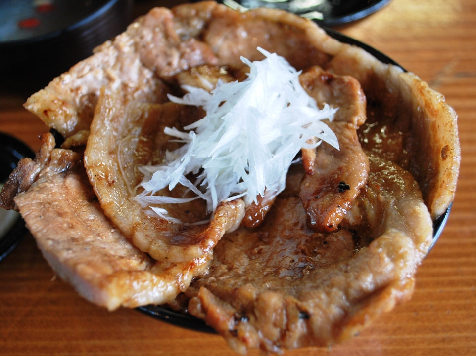 Buta-don at Nakasatsunai (Hoe Buta-tei in Hanabatake bokujo)